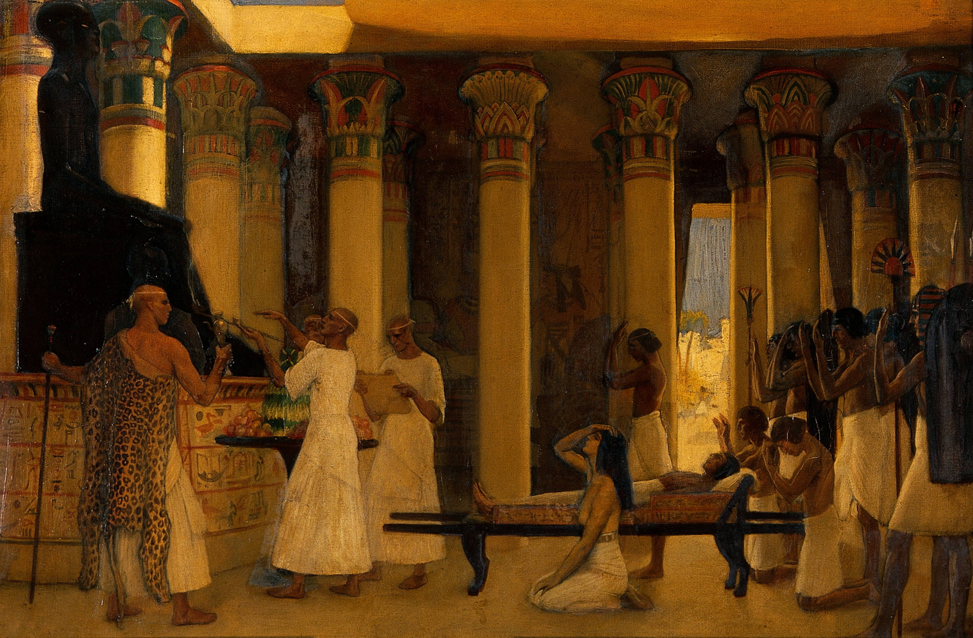 An invocation to I-em-hetep, the Egyptian deity of medicine. Oil painting by Ernest Board. Iconographic Collections Keywords: i-em-hetep; Ernest Board; egyptian medicine; GOD; ernest board; SACRED SUBJECTS; deity